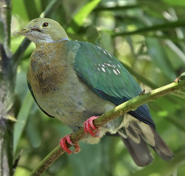 A pink-spotted fruit dove at Jurong Bird Park, Singapore